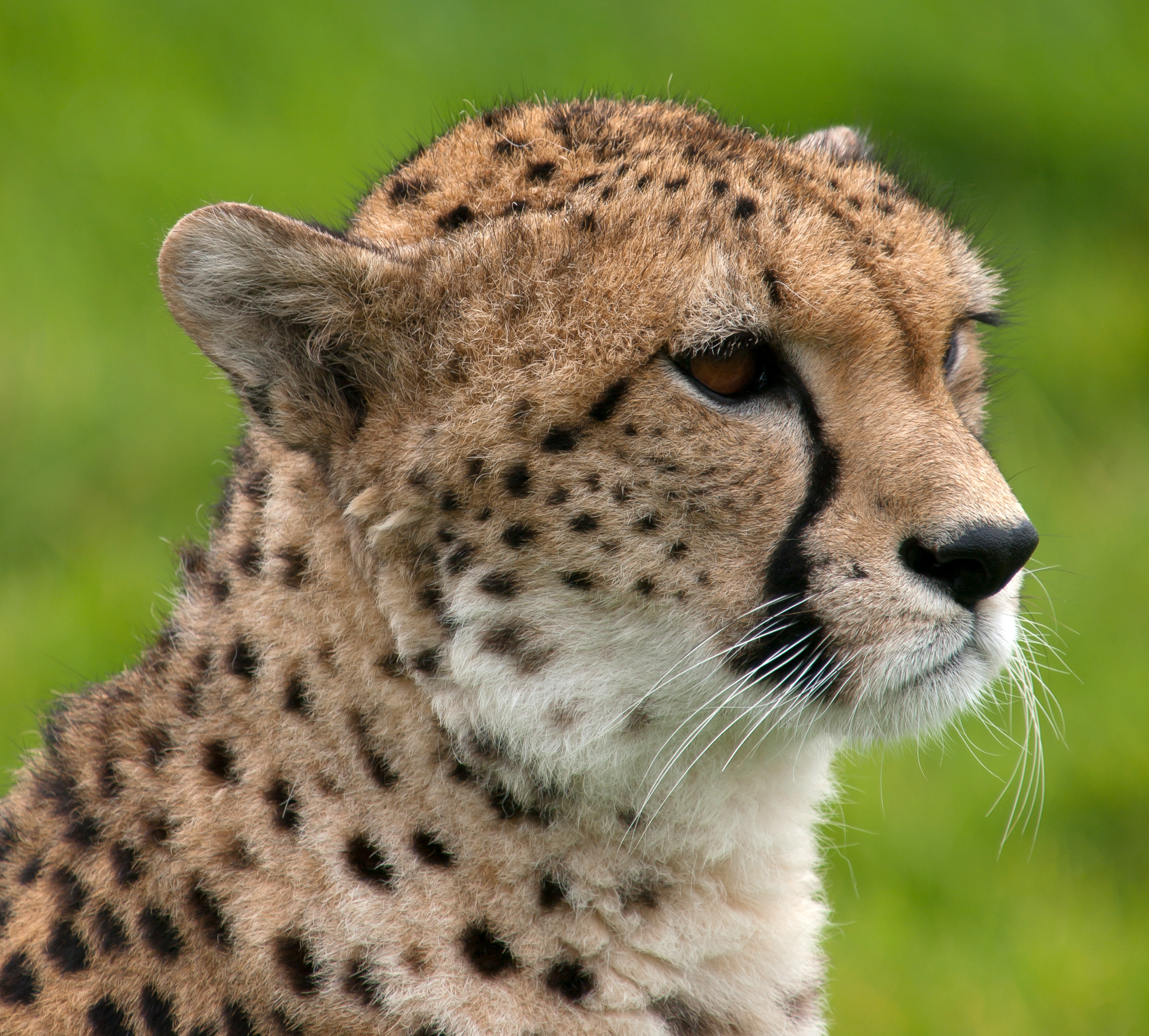 Cheetah portrait at Whipsnade Zoo, Whipsnade, Bedfordshire, England.